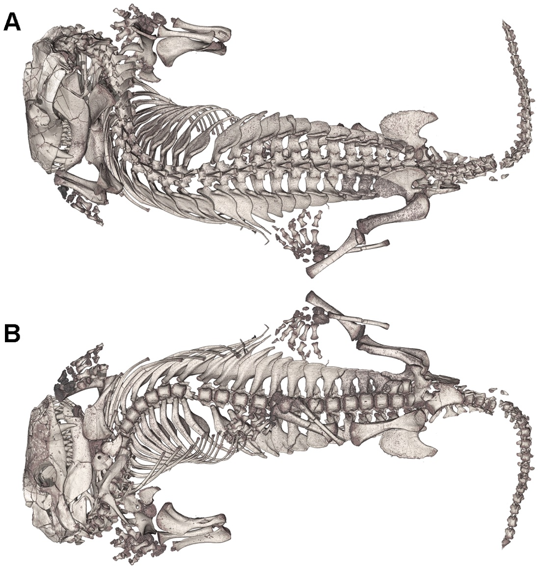 3D rendering of the skeleton of Thrinaxodon liorhinus (specimen BP/1/7199) in dorsal (A) and ventral (C) views. Part of the burrow cast BP/1/5558, which also preserves a skeleton of Broomistega putterilli (specimen BP/1/7200).